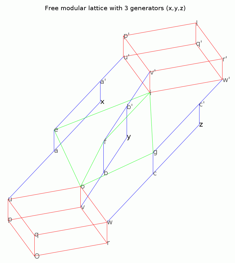 3-dimensional diagram of the free modular lattice generated by {x,y,z}. Constructed in 1900 by R. Dedekind. O=x∧y∧z, I=x∨y∨z, p=x∧y, p'=x∨y, q=x∧z, q'=x∨z, r=y∧z, r'=y∨z, u=p∨q, u'=p∧q, v=p∨r, v'=p∧r, w=q∨r, w'=q∧r, a=x∧r', a'=x∨r, b=y∧q', b'=y∨q, c=z∧p', c'=z∨p, o=p∨q∨r, i=p'∧q'∧r', e=a∨o=a'∧i, f=b∨o=b'∧i, g=c∨o=c'∧i.